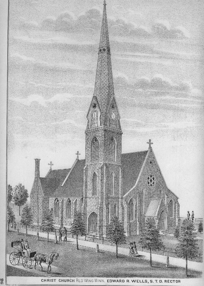 photo of Christ Episcopal Church (Red Wing, MN)